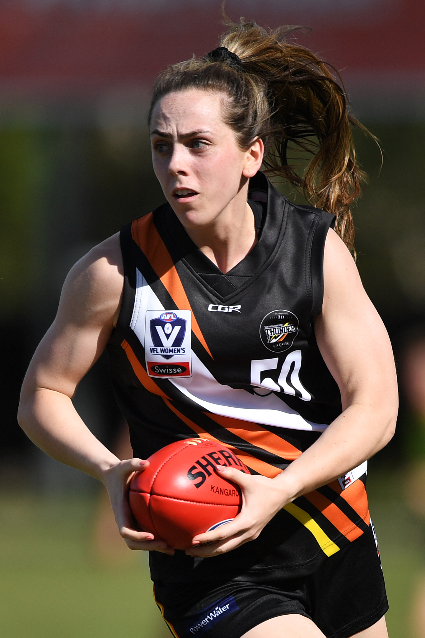 Aishling Sheridan of NT Thunder during the 2019 VFLW round 2 match between NT Thunder and the Southern Saints at TIO Stadium on Saturday, 18 May 2019 in Darwin, Northern Territory.